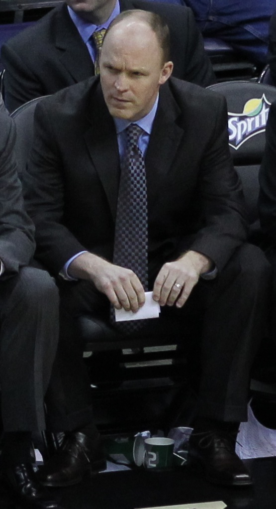 Scott Skiles coaching the Milwaukee Bucks. Wizards v/s Bucks 03/08/11